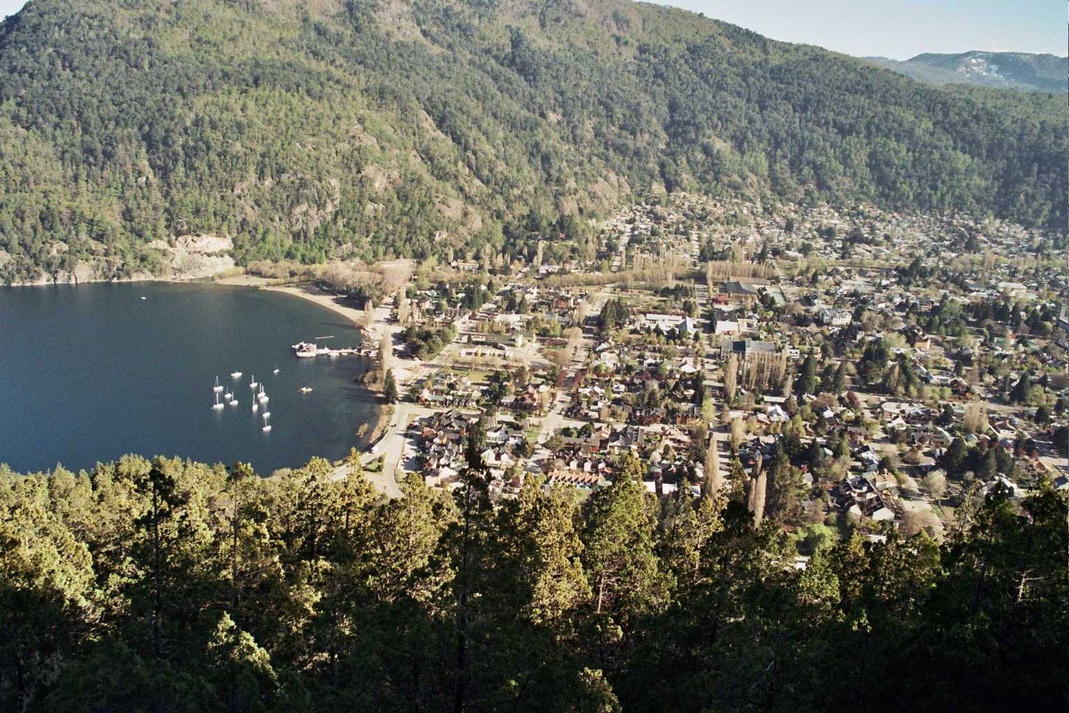 San Martin de los Andes